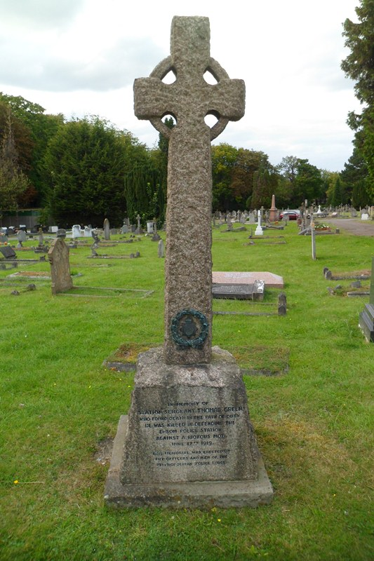 The grave of Sgt Thomas Green of Epsom Constabulary in Epsom Cemetery. He was killed during the Epsom Riot of 1919